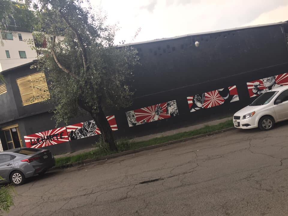 Outside facade of Arena Mamá Lucha-S, professional wrestling/lucha libre promotion and arena in the state of Mexico, Cuautitlan Izcalli.